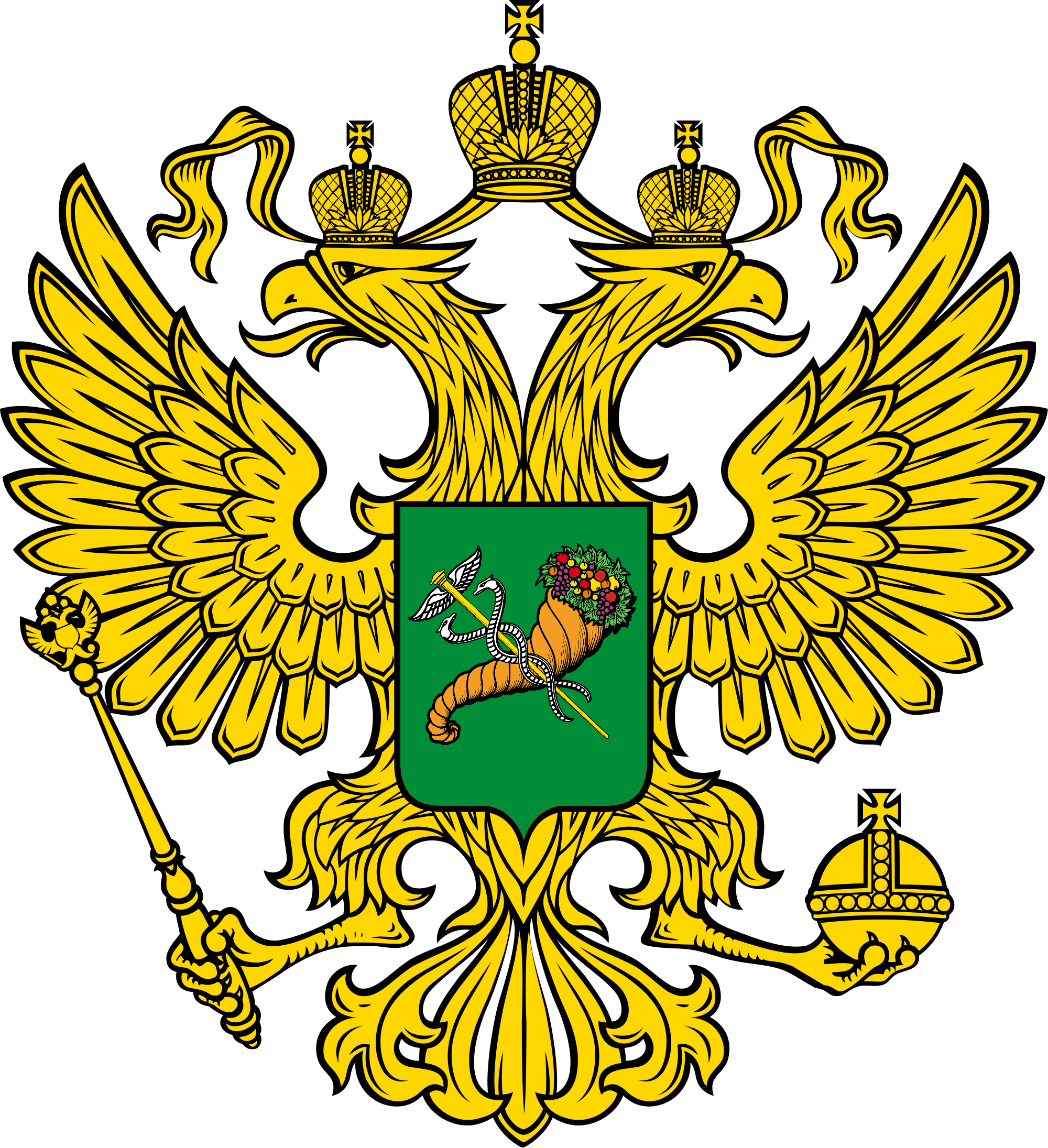 Coat of Arms of the Kharkov People's Republic, used since 7th April 2014.